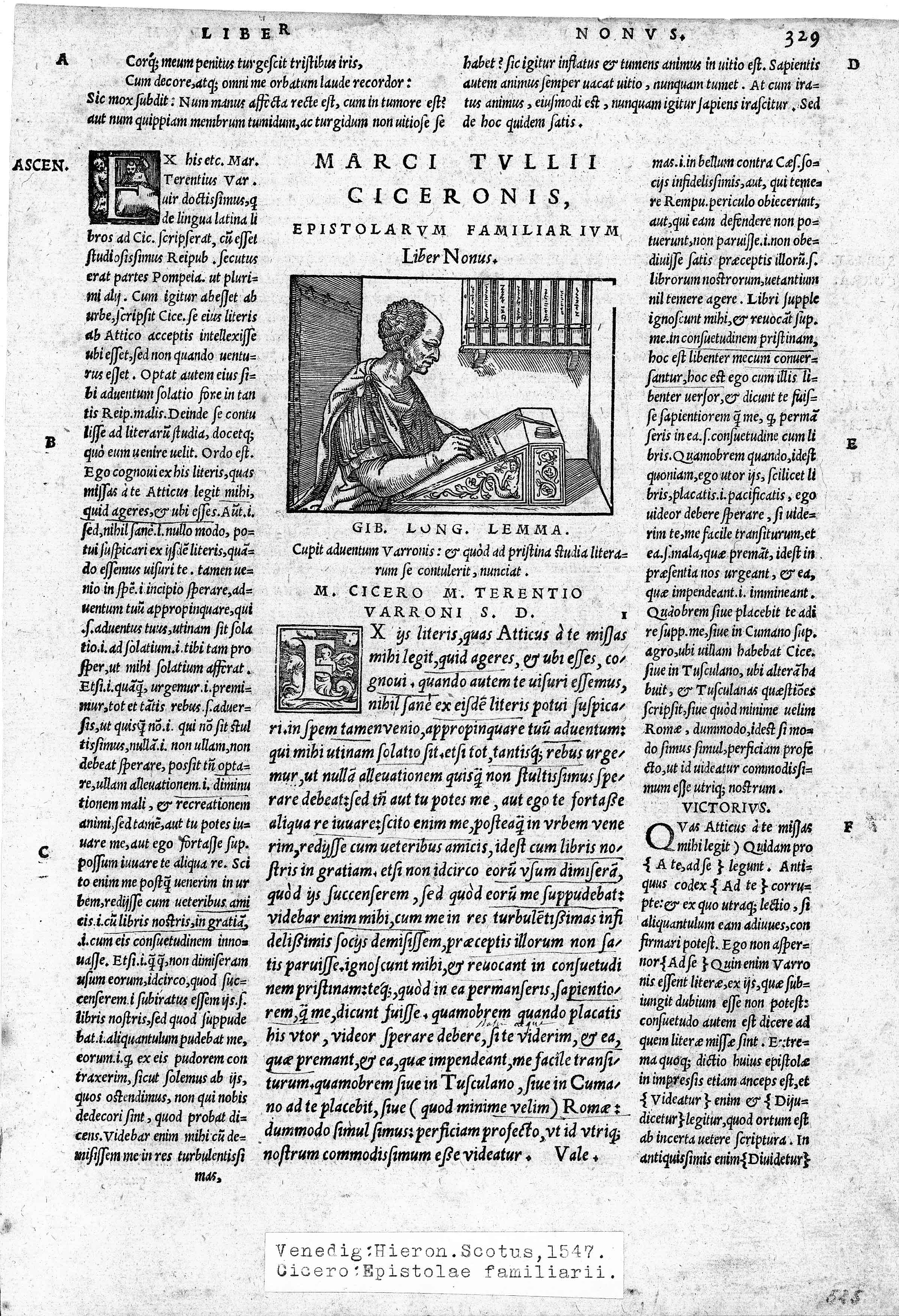 This image shows page 329 of Cicero, Epistulae ad familiares (“Letters to his friends”), from an early edition printed by Hieronymus Scotus (alias Girolamo Scoto) in 1547 at Venice (Venezia, Italy). On this page, book IX (nine) of the Epistulae begins. In the central column we see the book’s headline, a little woodcut showing Cicero writing his letters, and the beginning of the first letter of book IX. In the margins, we see different commentarys explaining Cicero’s text.